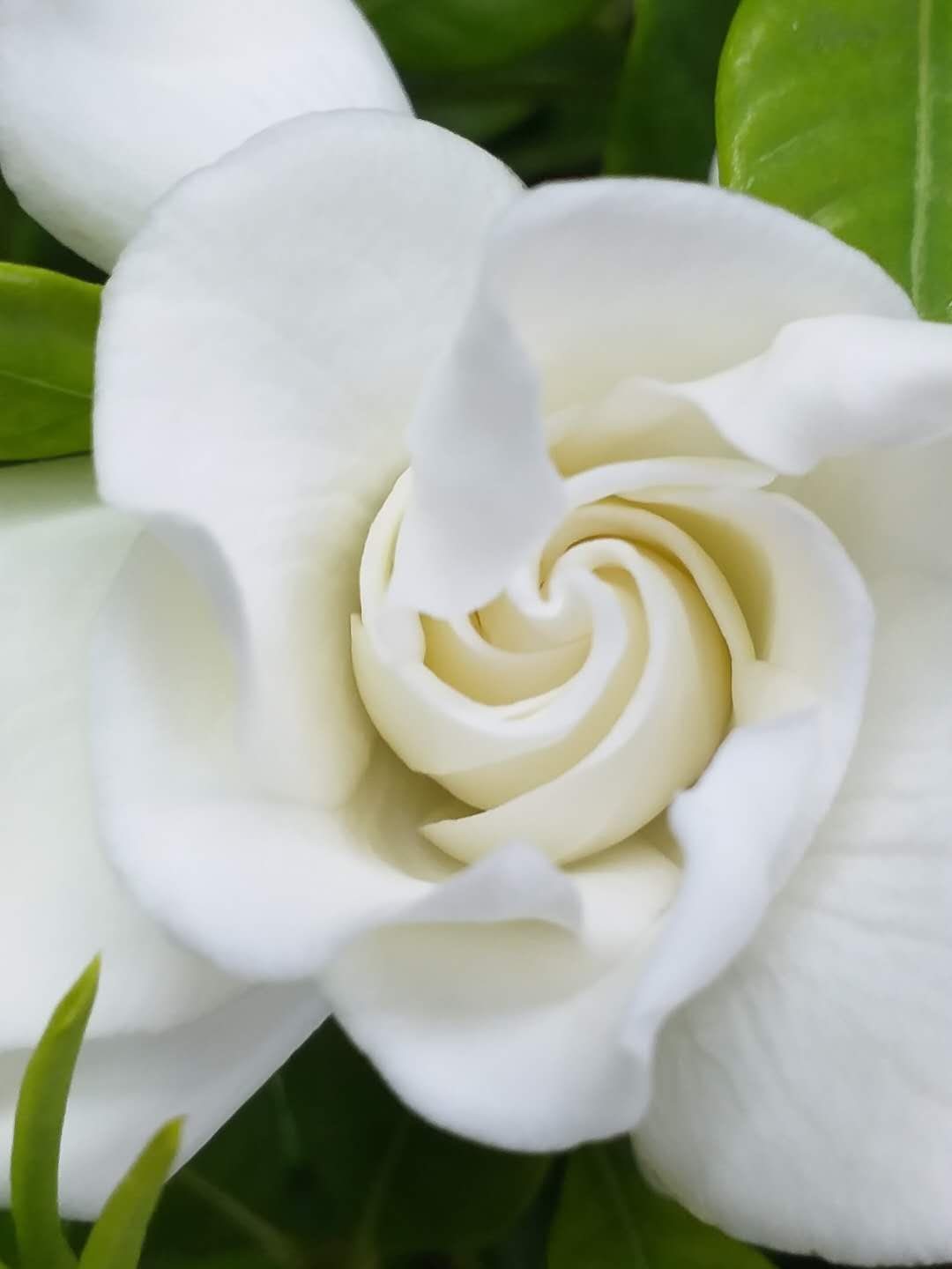 Gardenia jasminoides, ornamental cultivar. Taichung, Taiwan.